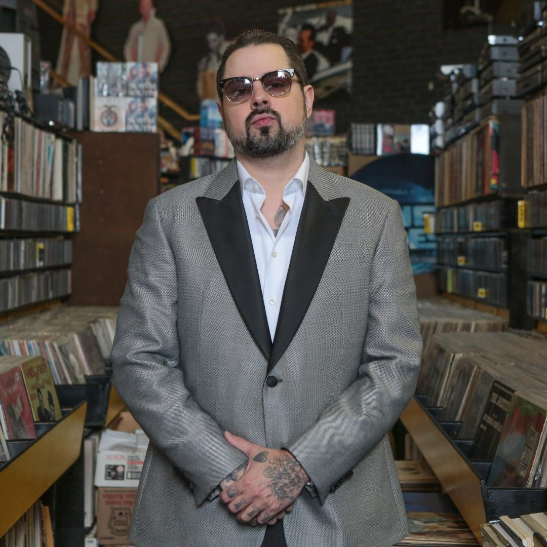 Jay E record exchange